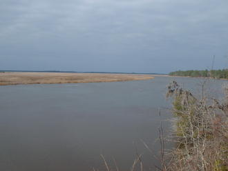 Combahee River view from Tar Bluff